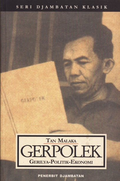 Cover Book of Gerpolek